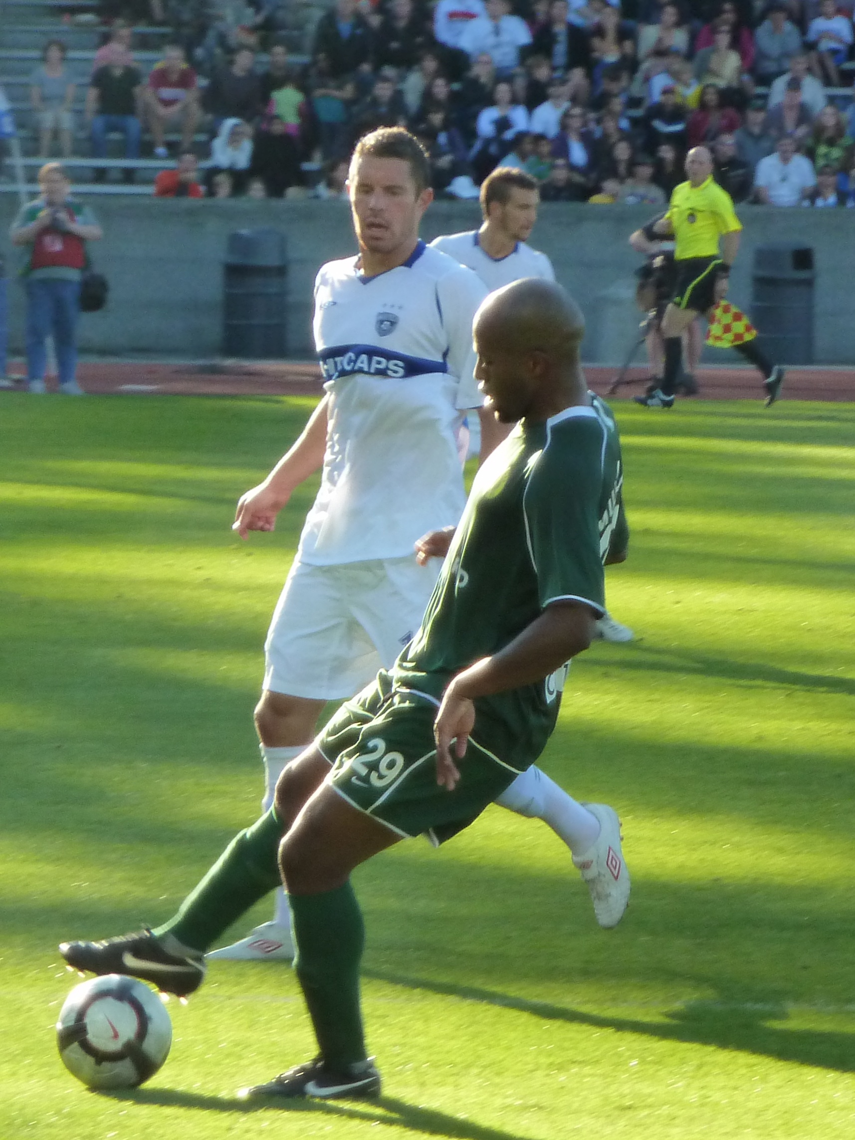 Ibad Muhamadu in a USSF Division 2 Professional League game. Vancouver Whitecaps vs Portland Timbers, 2-Oct-2010